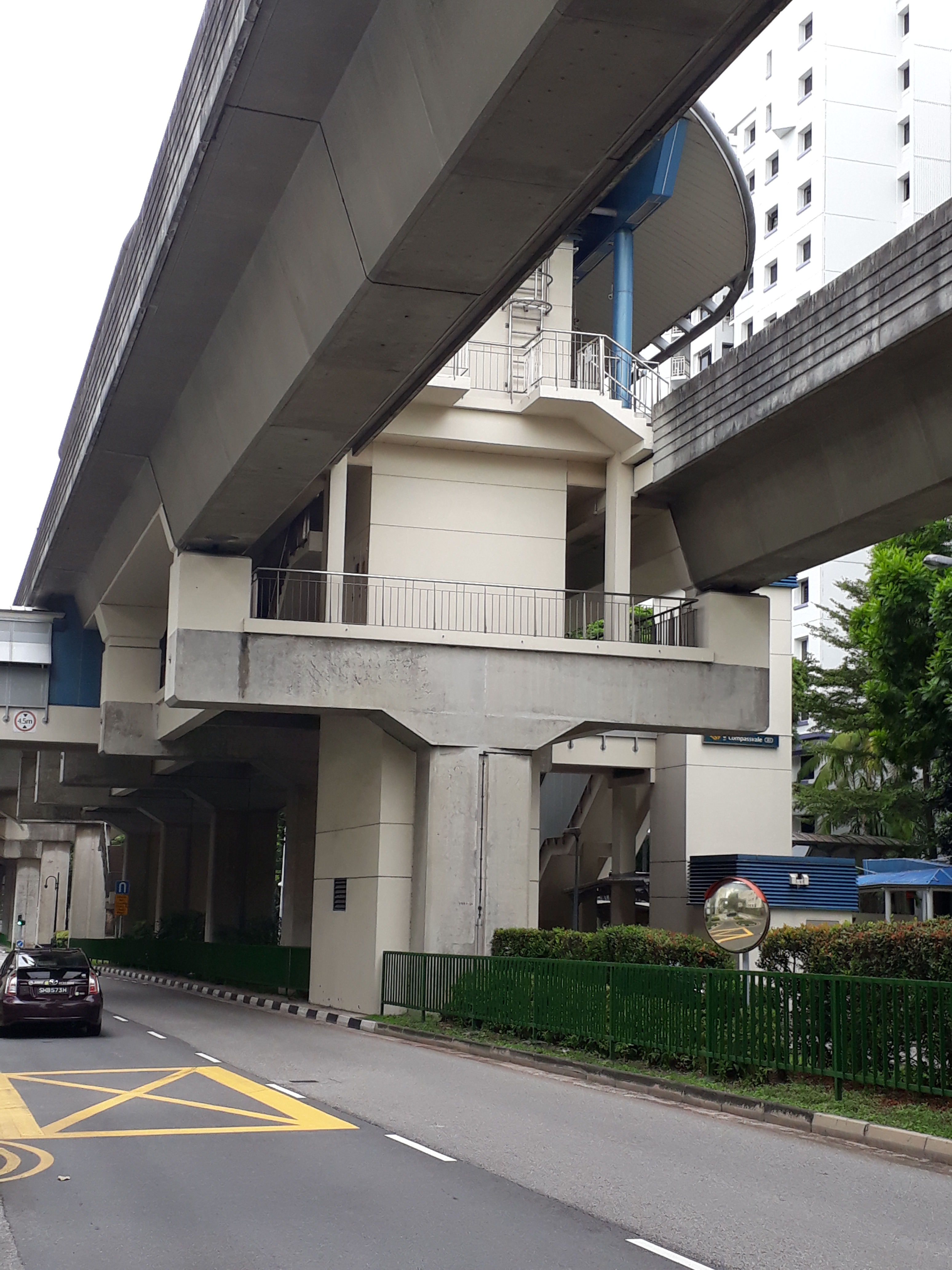 Exterior of Compassvale LRT Station